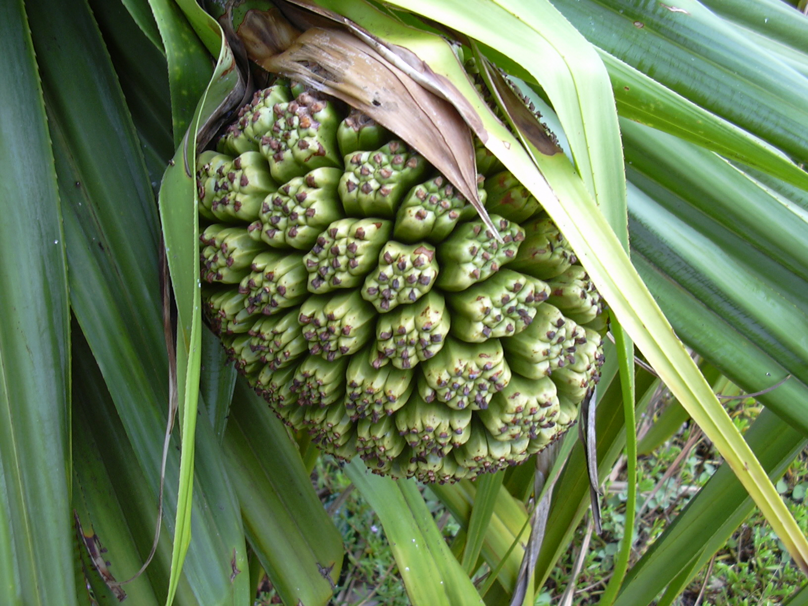 Pandanus tectorius (fruit). Location: Maui, Kanaha Pond